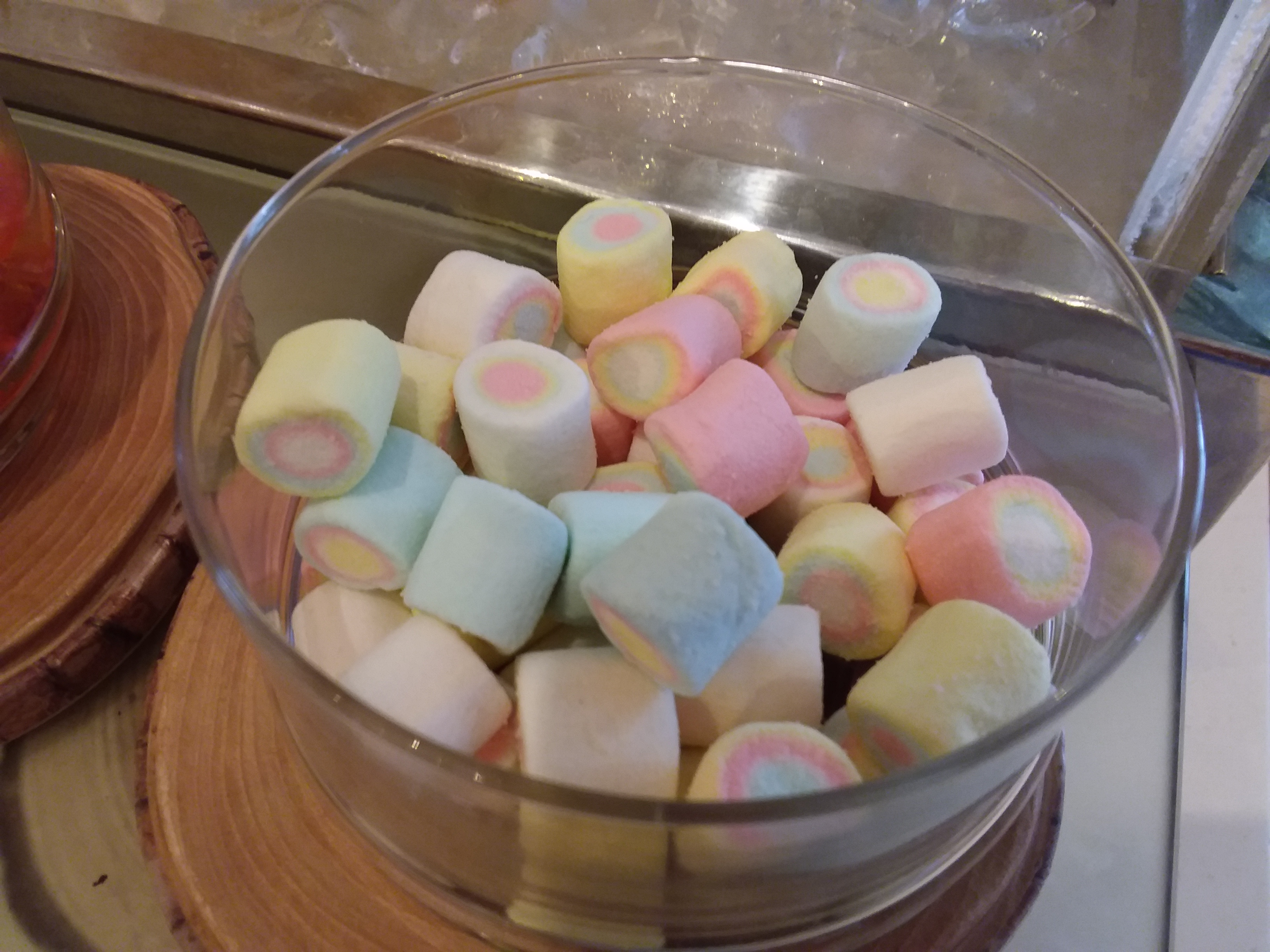 HK 銅鑼灣 Causeway Bay 富豪香港酒店 Regal Hong Kong Hotel restaurant food Candy in August 2018